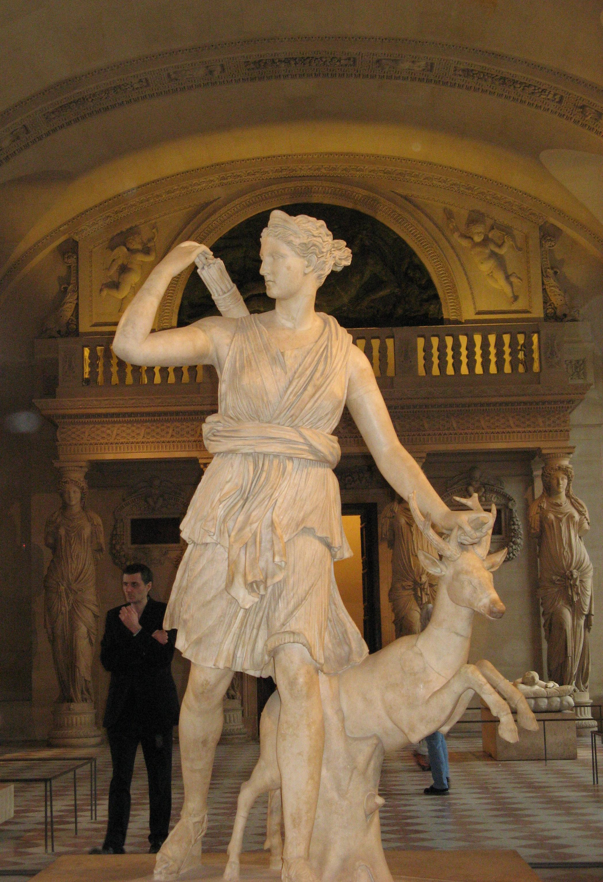 Artemis statue in Louvre, Paris, France